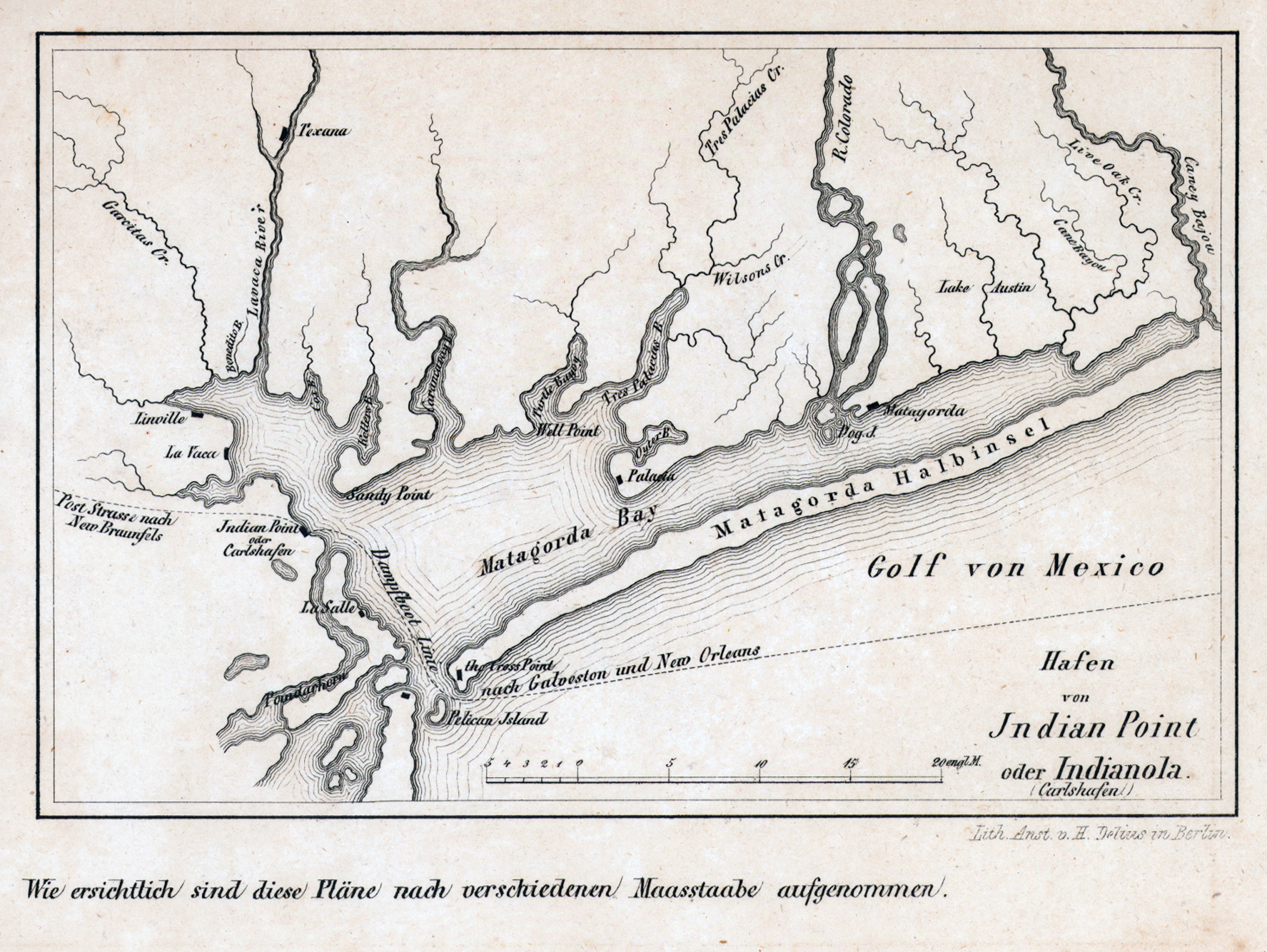 This harbor map was part of a packet of materials published in 1851 by the Verein zum Schutze Deutscher Auswanderer nach Texas (Society for the Protection of German Emigrants to Texas, also known as the Adelsverein or Society of Nobles headquartered in Mainz and Wiesbaden). The port town and harbor of Indianola and the towns of New Braunfels and Fredericksburg all figured prominently in this project to settle hundreds of German emigrants in Texas during the 1840s and early 1850s. Employees of the Adelsverein who probably prepared these maps included Hermann Willke (ca.1822-after 1865), a young surveyor-engineer and Prussian army veteran and possibly Nicolaus Zink (1812-1887), also a surveyor-engineer and Bavarian army veteran who laid out the colony's town of New Braunfels.